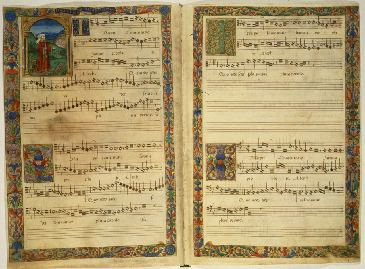 Polyphonic setting of Lamentations of Jeremiah by Carpentras, from Vatican archive. From [1].